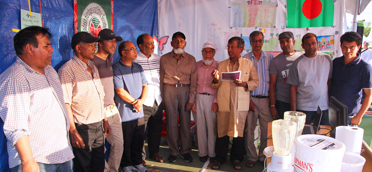 Inauguration of the Edmonton Bichitra Bangladesh Heritage Special Edition through the chair of the Bangladesh Pavilion Delwar Jahid and attended by chief guest Siddique Hossain, who participated in the language movement of Bangladesh in 1952, at the Heritage Festival in Edmonton, Alberta, Canada, taken August 1, 2015 by Andy Strohkirch.